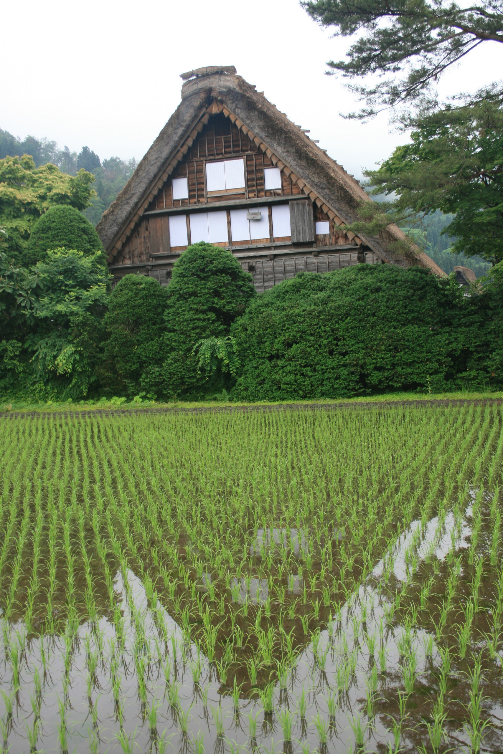 Wada-ke house in Historic Villages of Shirakawa-gō and Gokayama and Paddy field